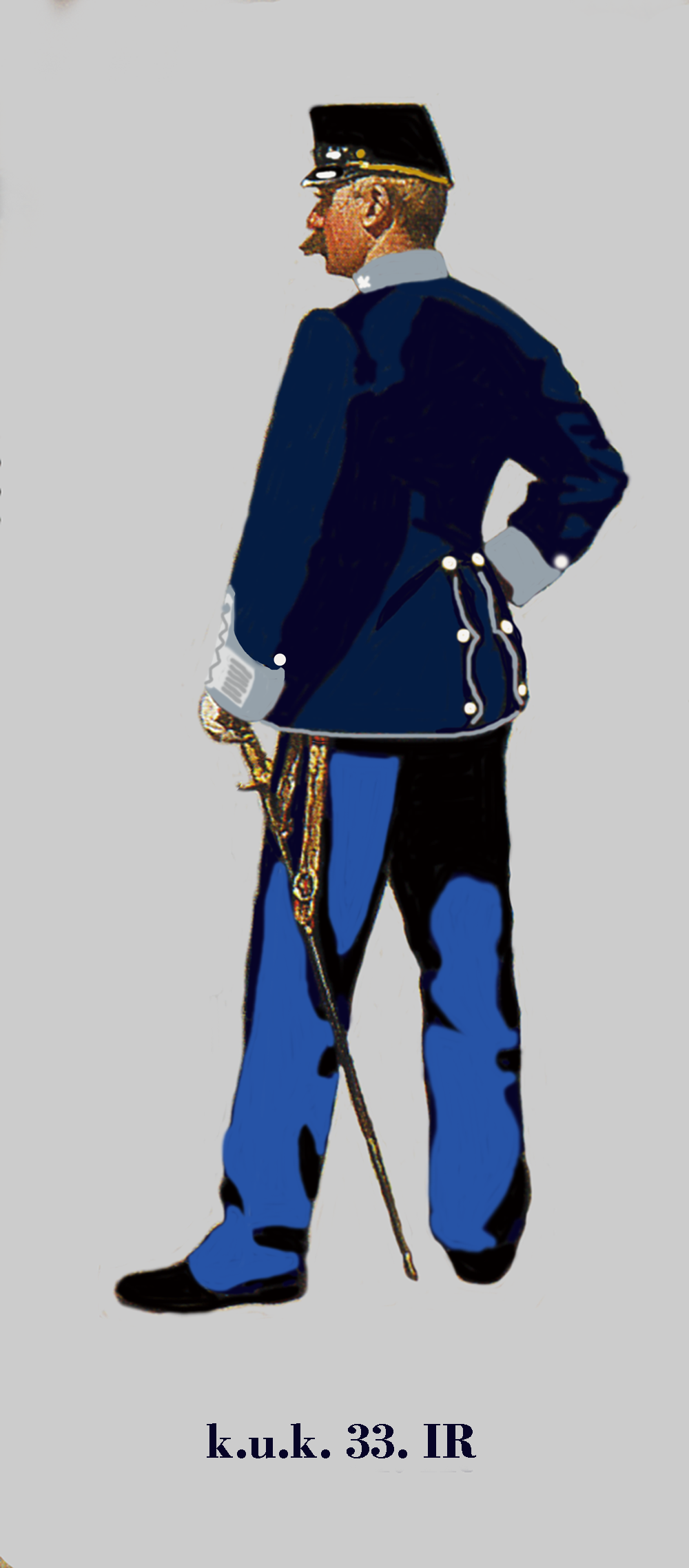 Lieutenant of the Austria-Hungarian (k.u.k.). 33rd hungarian Infantry Regiment in Service dress 1914